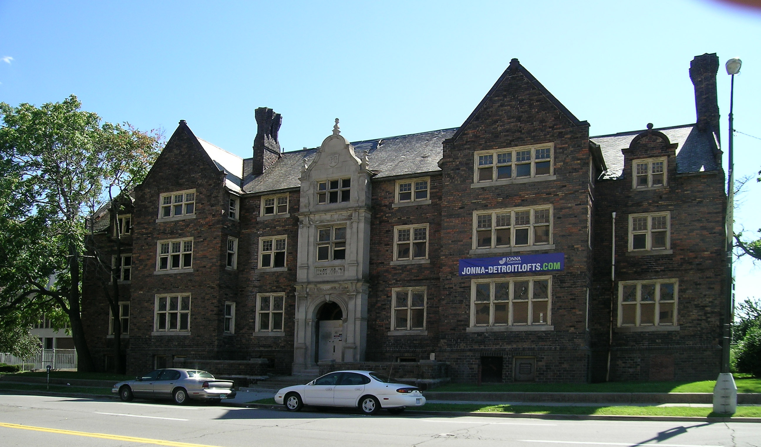 Helen Newberry Nurses Home, Detroit MI. Designed by architect Elijah E. Myers